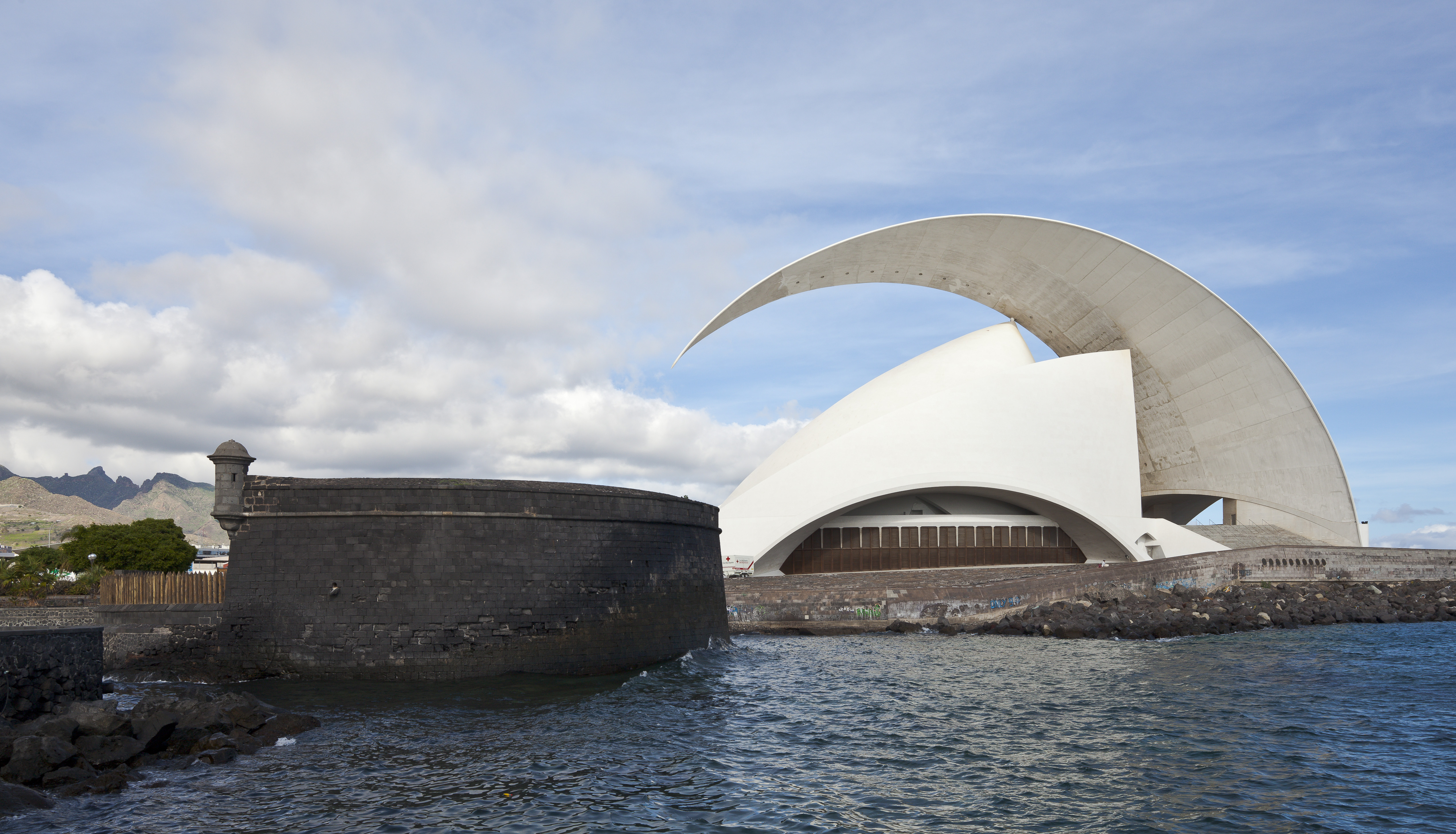 Auditorium of Tenerife, Santa Cruz de Tenerife, Spain